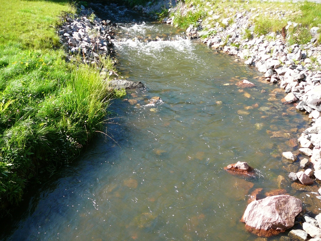 The little river at Espoo, Finland